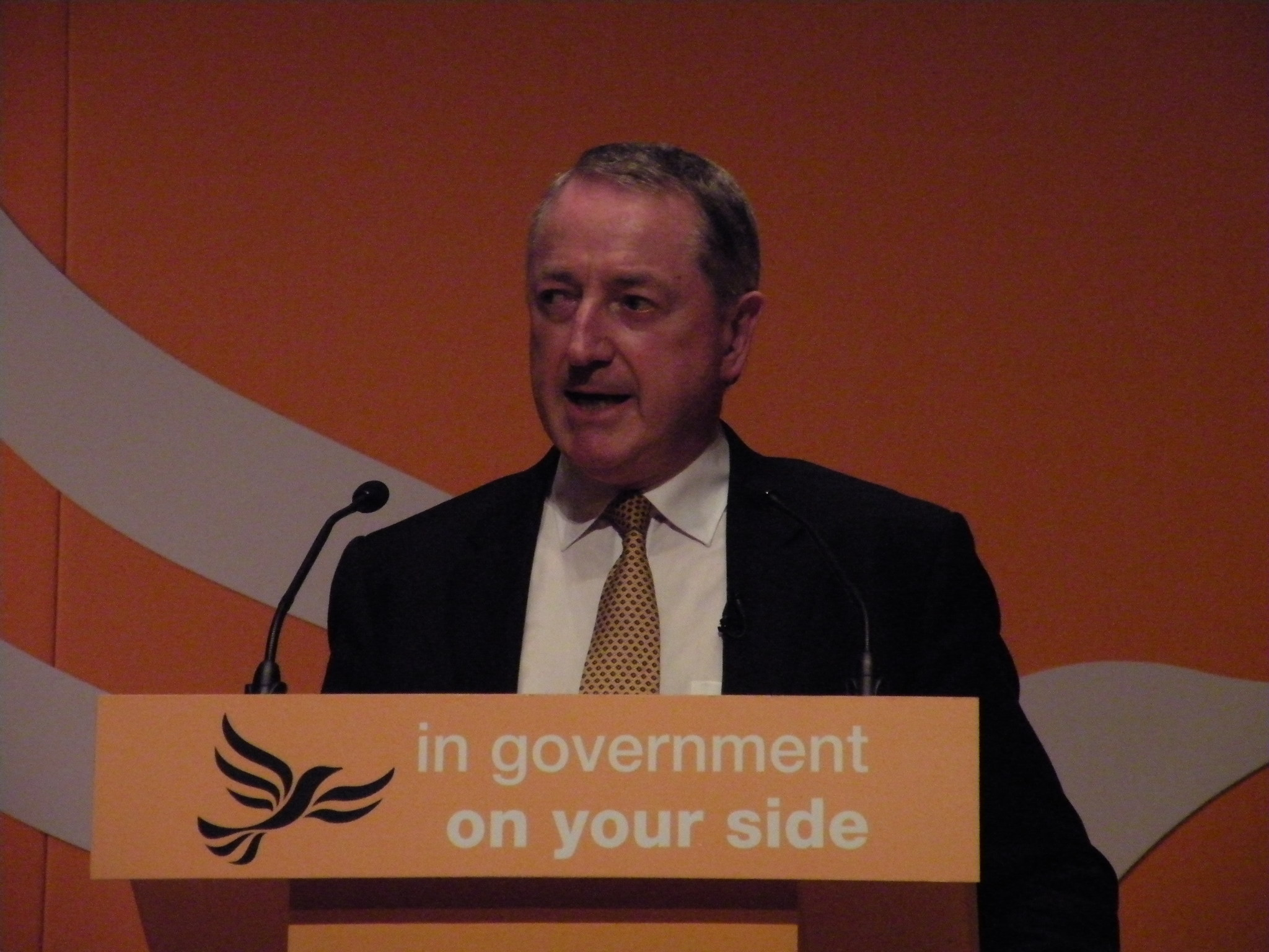 Sir Ian Wrigglesworth addressing a Liberal Democrat conference in the The Sage Gateshead